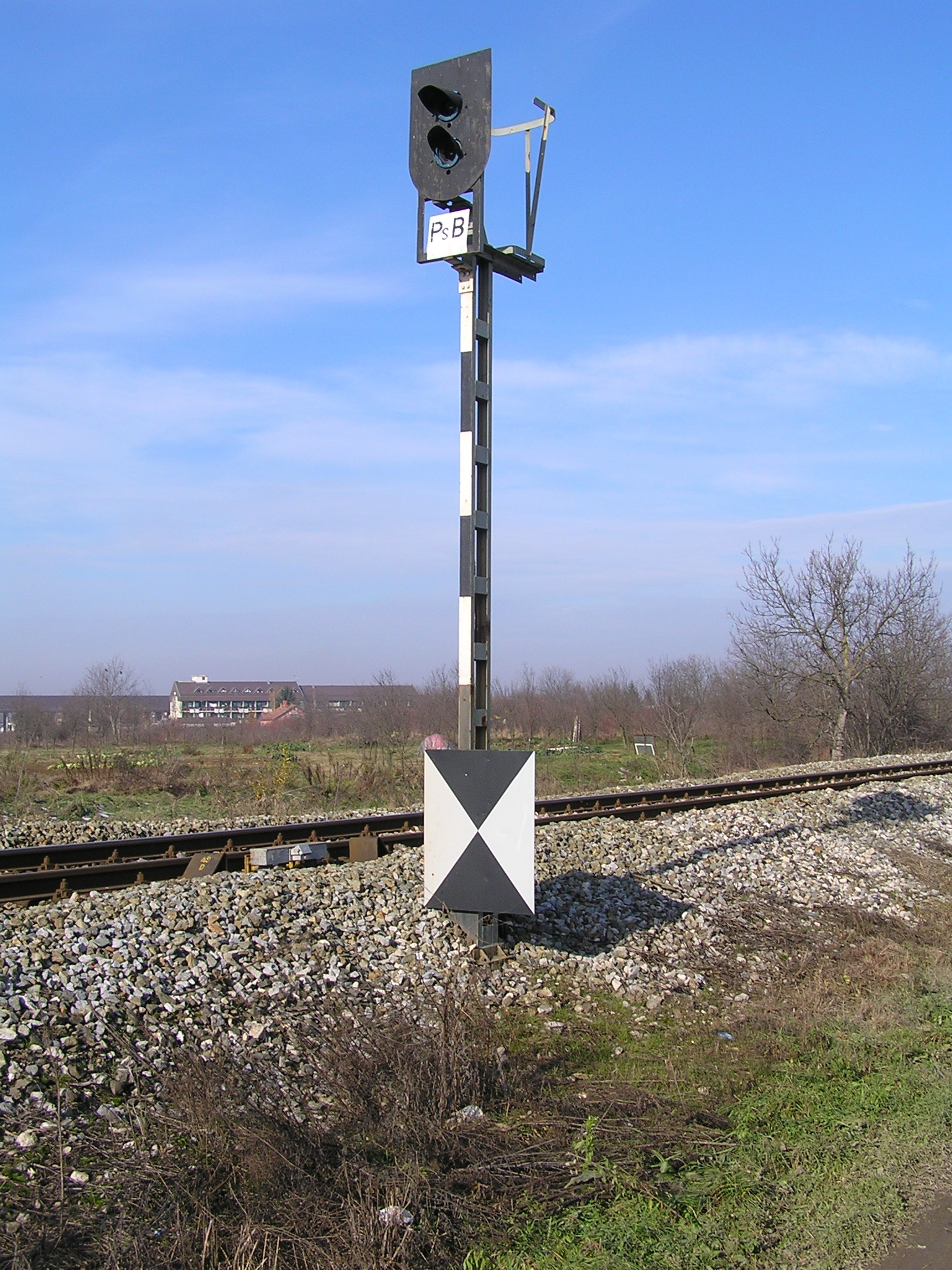 Railway light signal (Vinkovci, Croatia, Vinkovci-Brčko line)